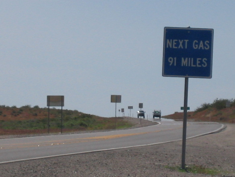 A sign on U.S. Highway 93 in Alamo, Lincoln County, Nevada. Released to the public domain.